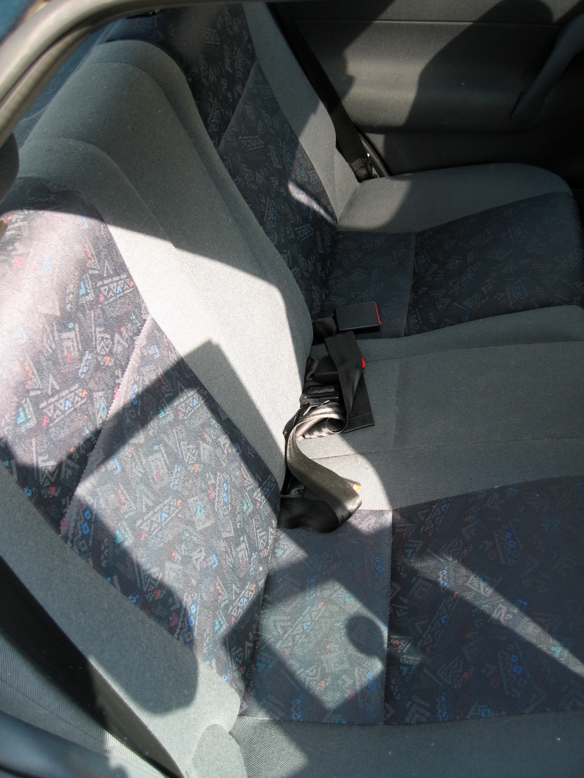 rear seats